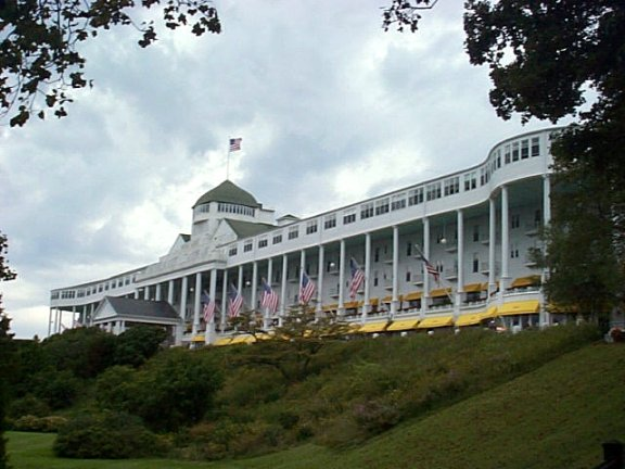 Taken from the english wikipedia: Originally uploaded to the english wikipedia: 00:39, 4 January 2006 by user:Jtmichcock Original comment: A photo of the Grand hotel taken at cousin's wedding in 2003.